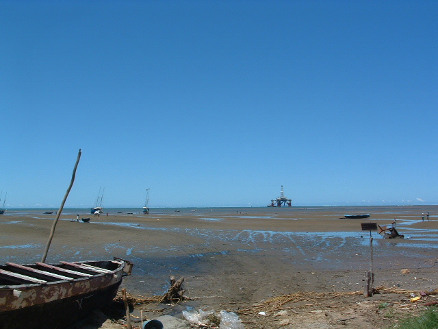 Offshore exploration rig in Toliara